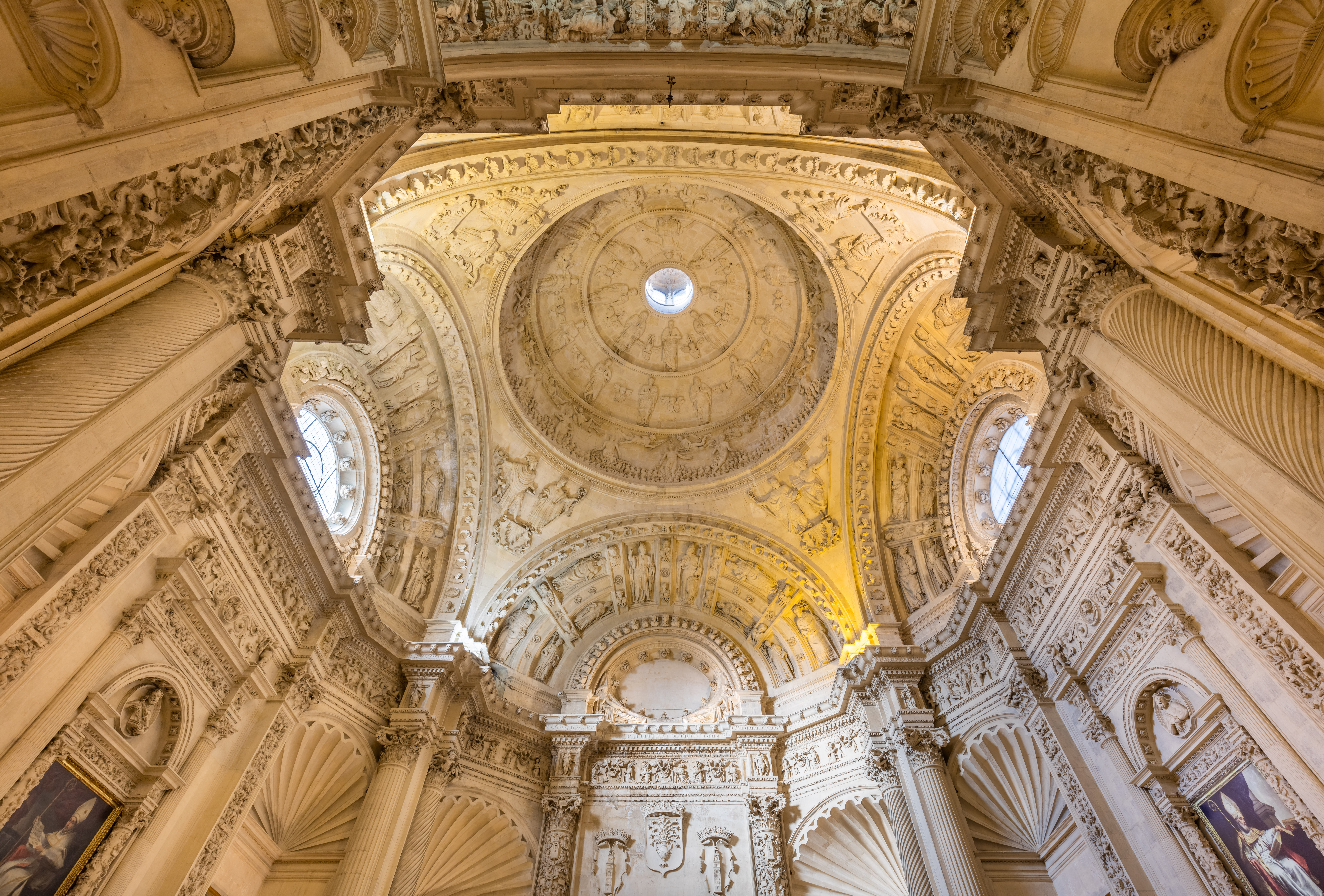 Ceiling of the Great Sacristy, Cathedral of Seville, Seville, Spain. The temple is since 1987 a World Heritage Site according to the UNESCO, is the largest Gothic cathedral and the third-largest church in the world. When it was completed, at the beginning of the 16th century, it became the successor of Hagia Sophia as the largest cathedral in the world, a title the Byzantine church had held for nearly a thousand years. The cathedral is also the burial site of Christopher Columbus.